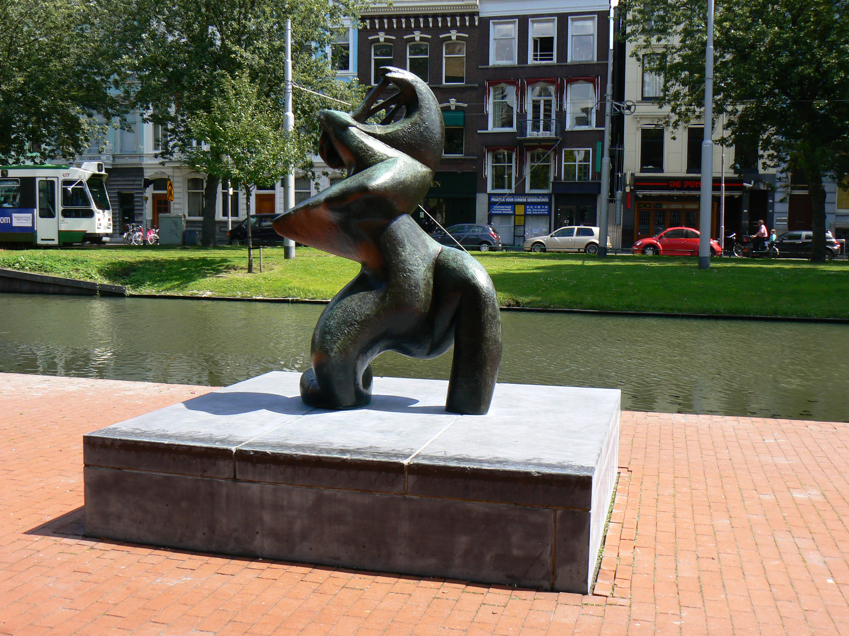 "La Grande Musicienne" (1938) by Henri Laurens in Rotterdam/The Netherlands